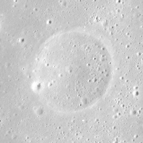 Slightly oblique view of Finsch crater, within Mare Serenitatis, on the moon. Taken by Apollo 15 panoramic camera.